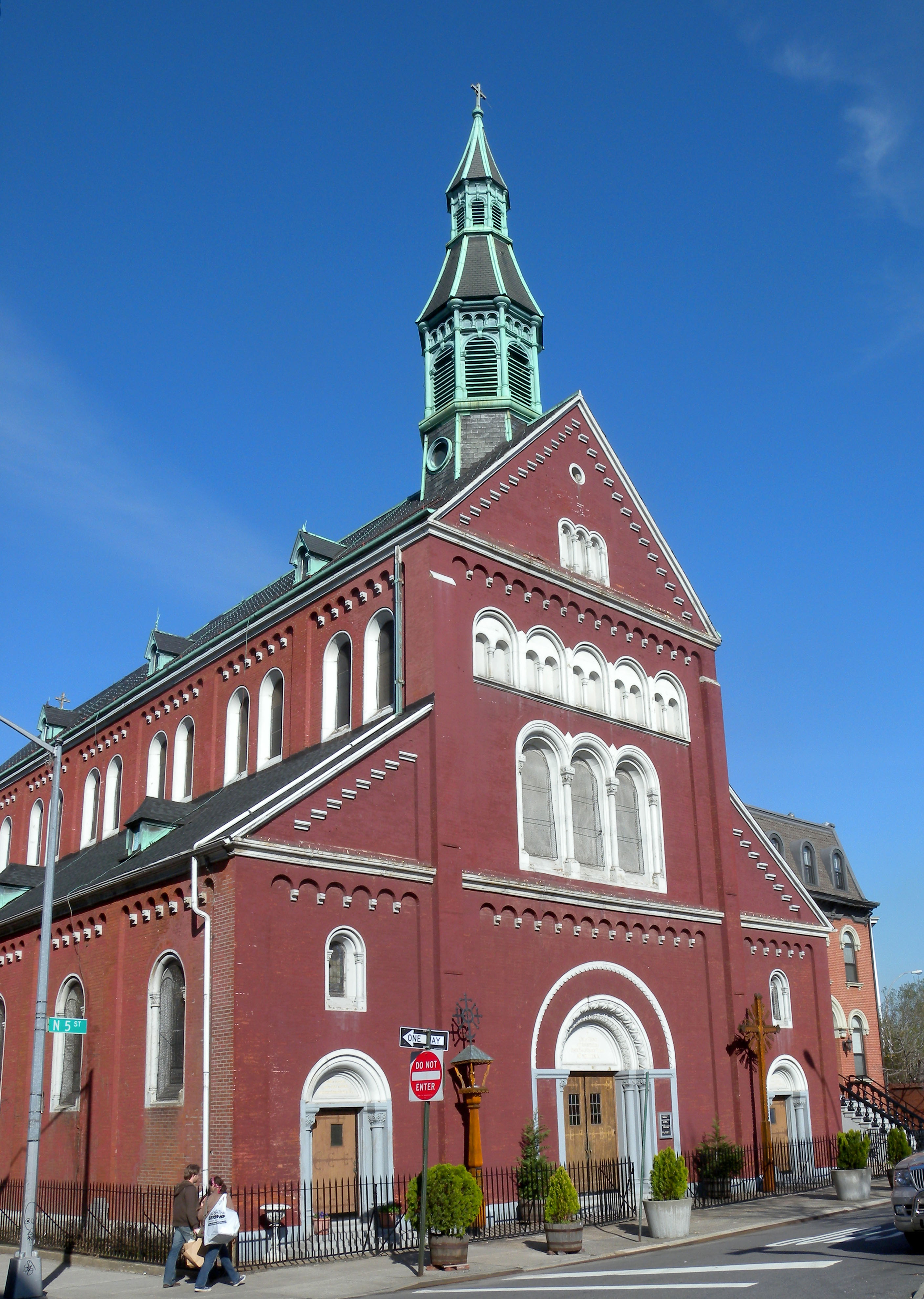 Looking east at Roman Catholic Church of the Annunciation on a sunny afternoon.